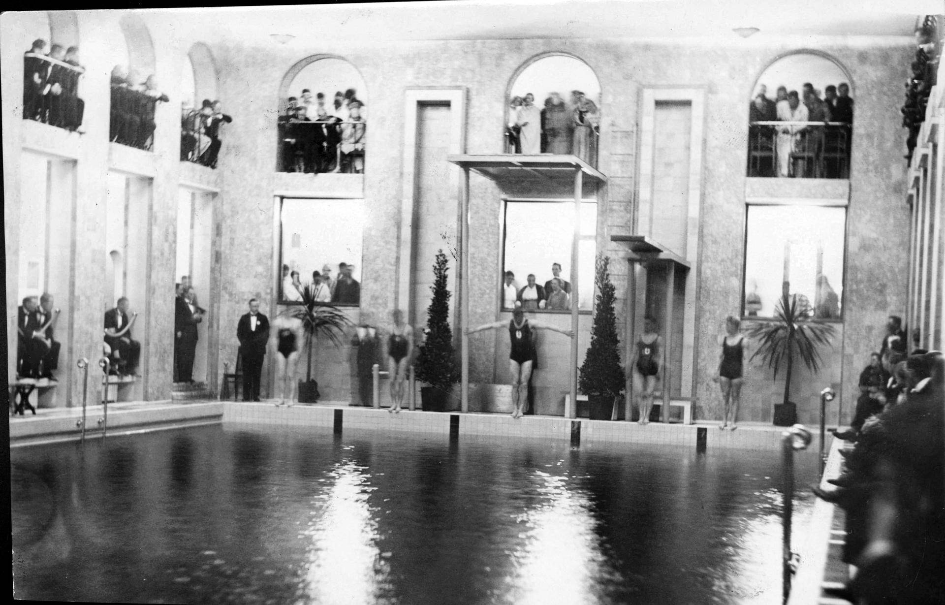 Photograph of Yrjönkatu swimming hall on the opening day.